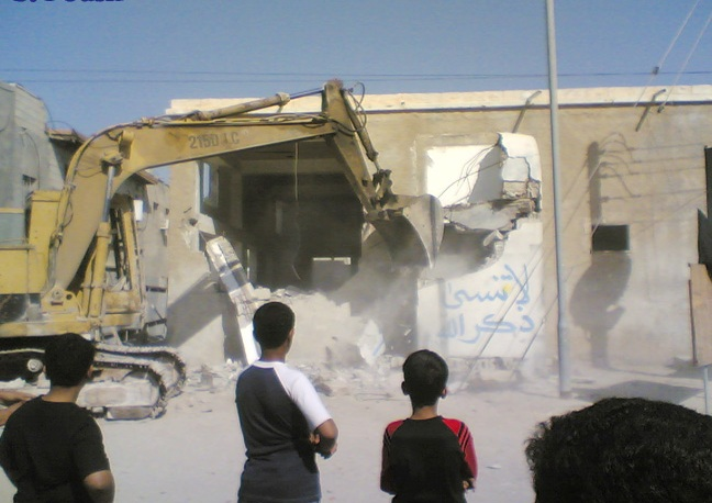 ALmarkh Bahrain